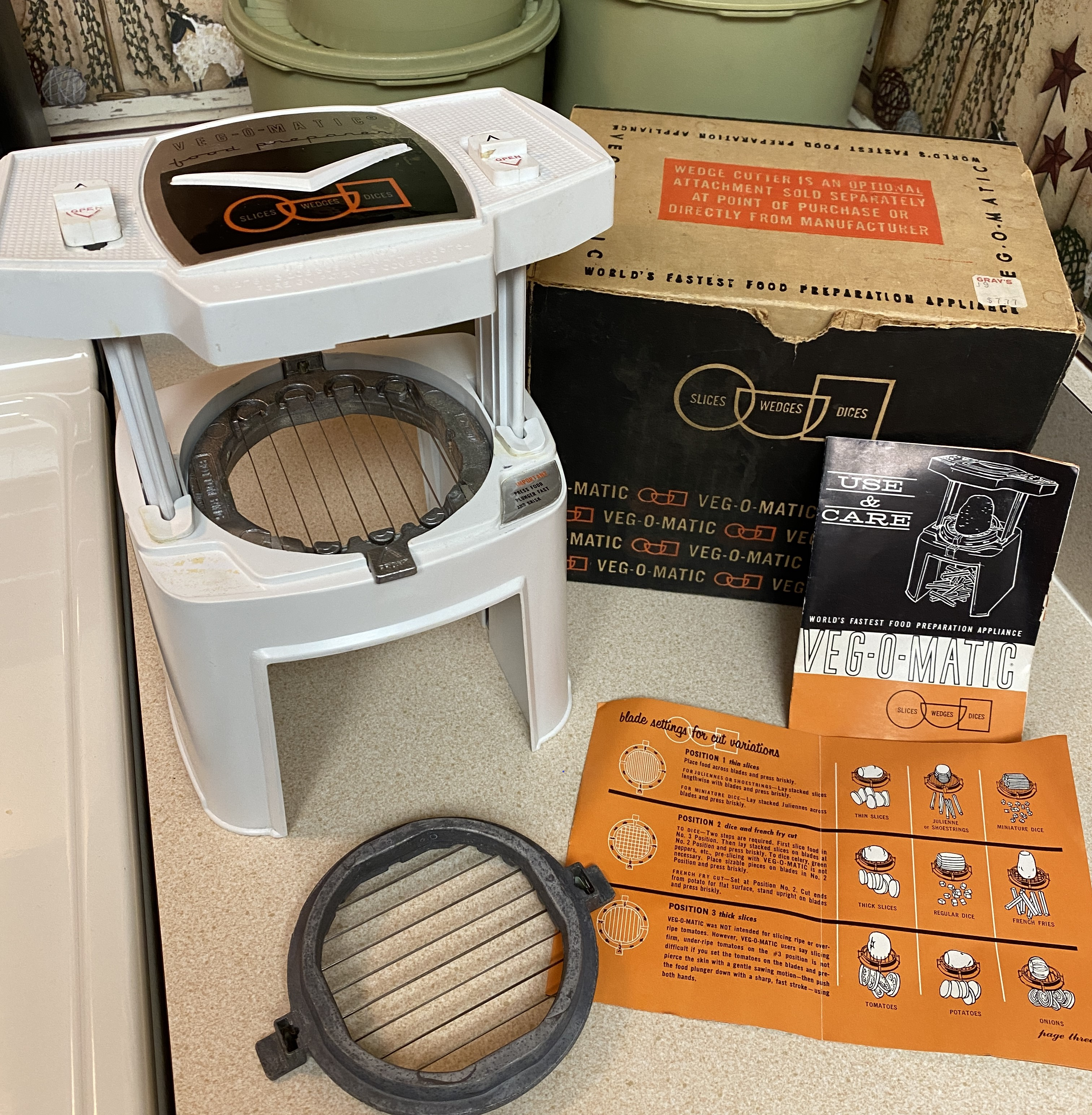 Veg-O-Matic with original box circa 1963 with manual and care guide